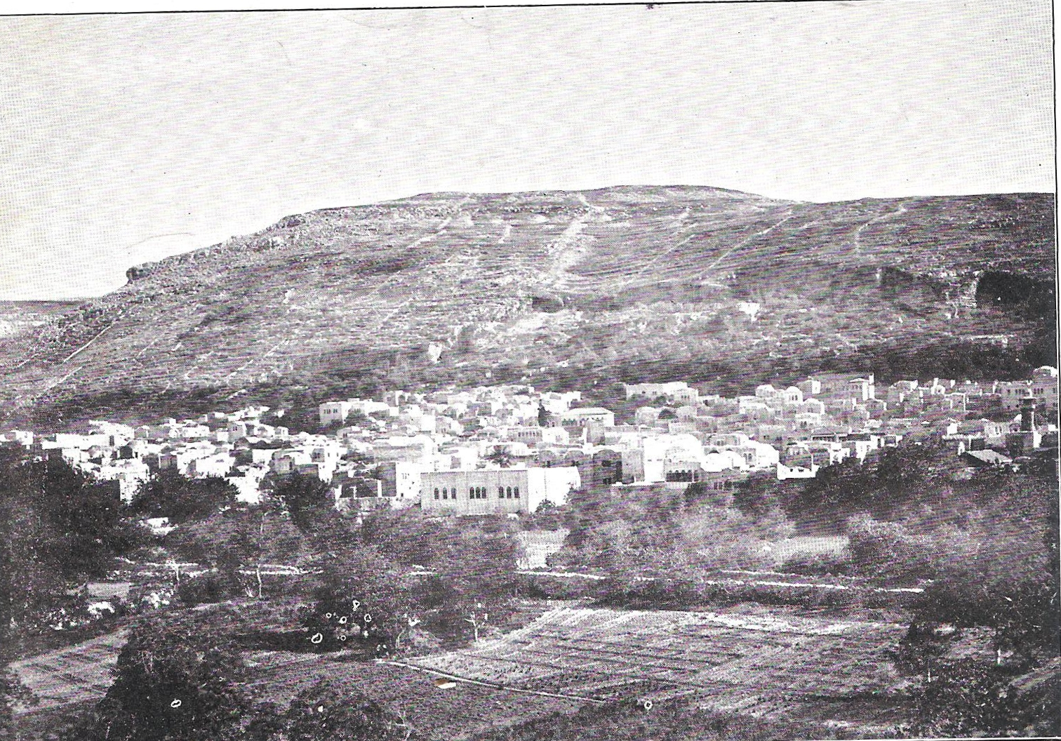 Nablus and Mount Gerizim